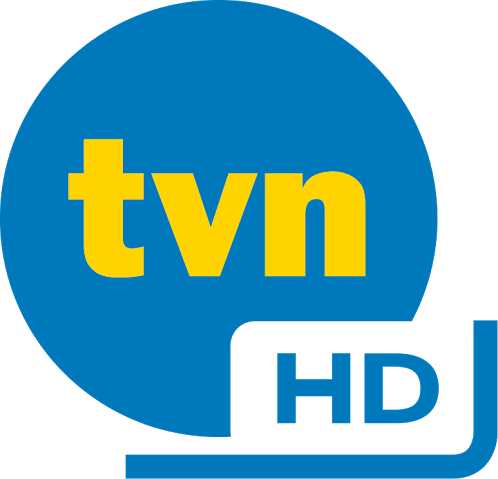 Logo of TVN HD